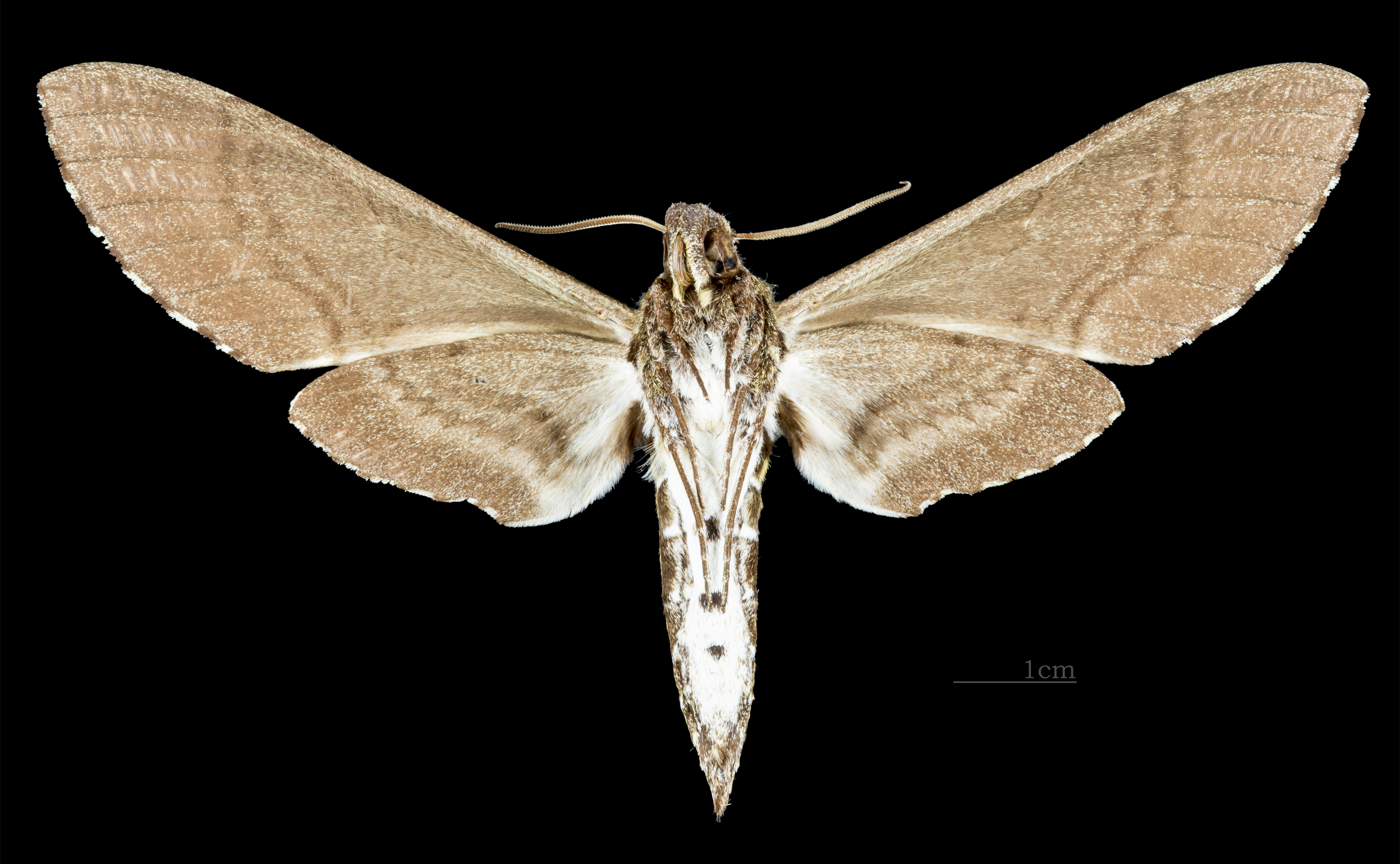 Manduca diffissa tropicalis - △ Ventral side Collection of the Mathematician Laurent Schwartz